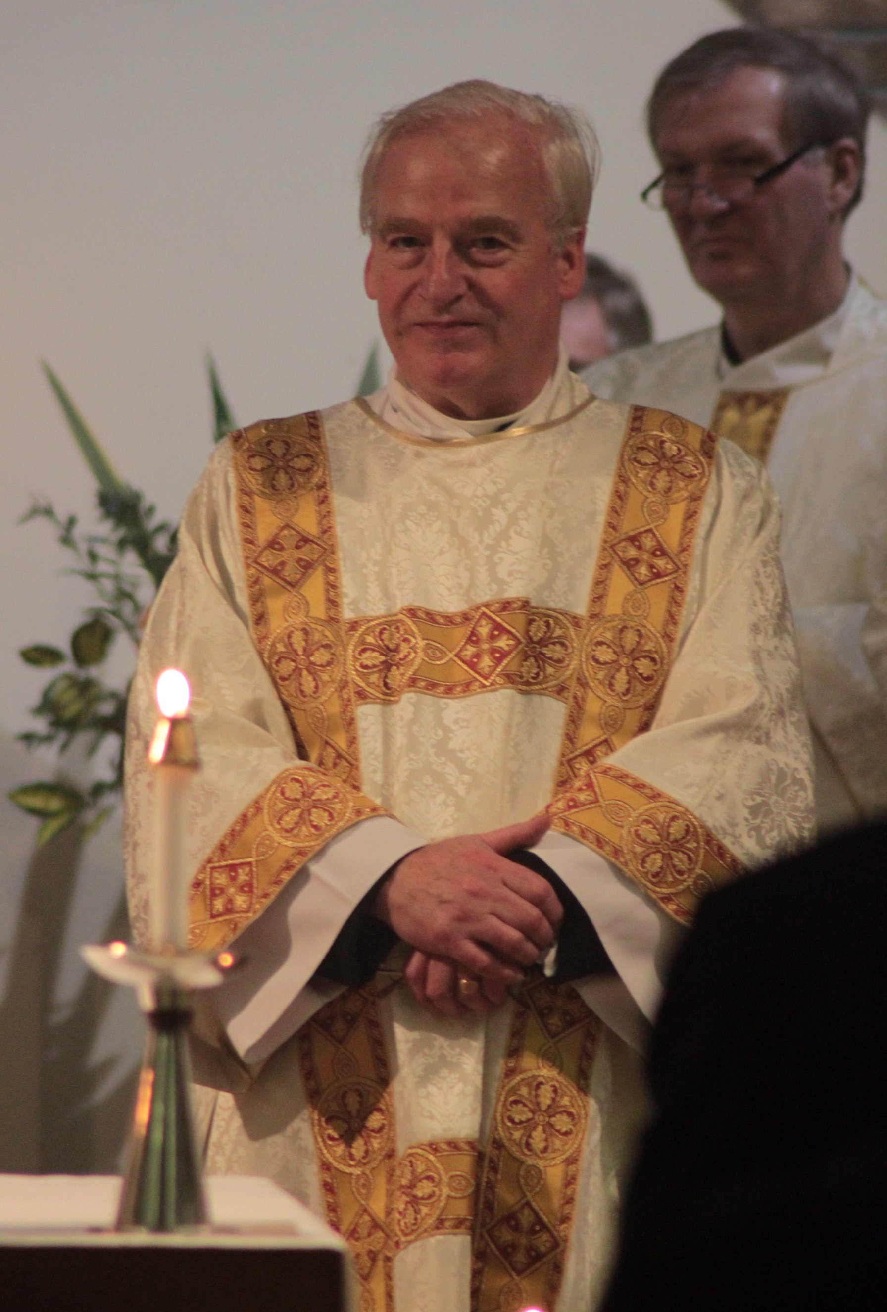 Deacon John Broadhurst